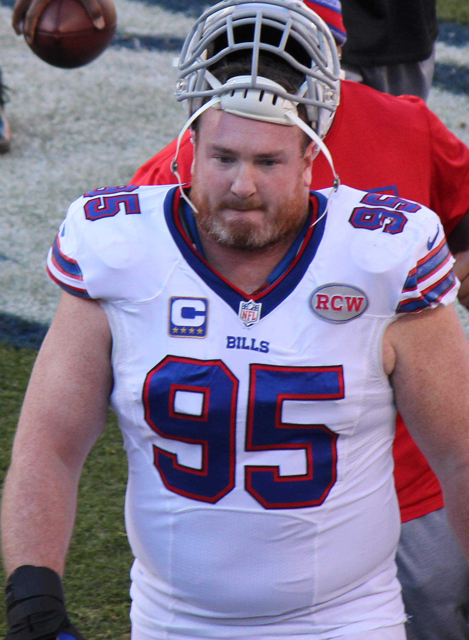 Kyle Williams, a player on the National Football League.